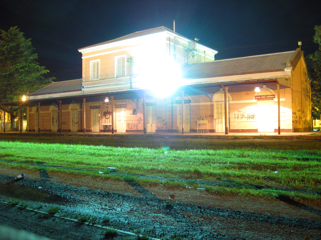 Saladillo Train Station